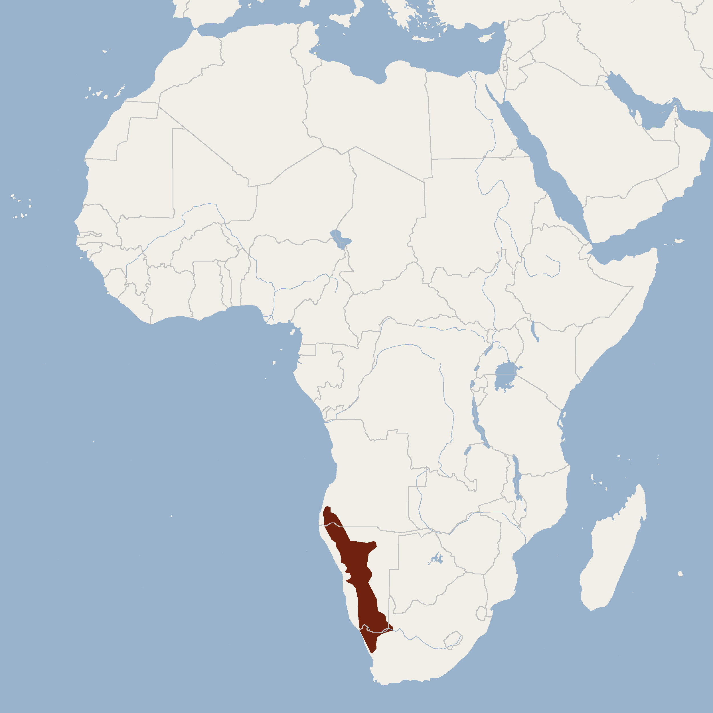 According to Happold, 2013